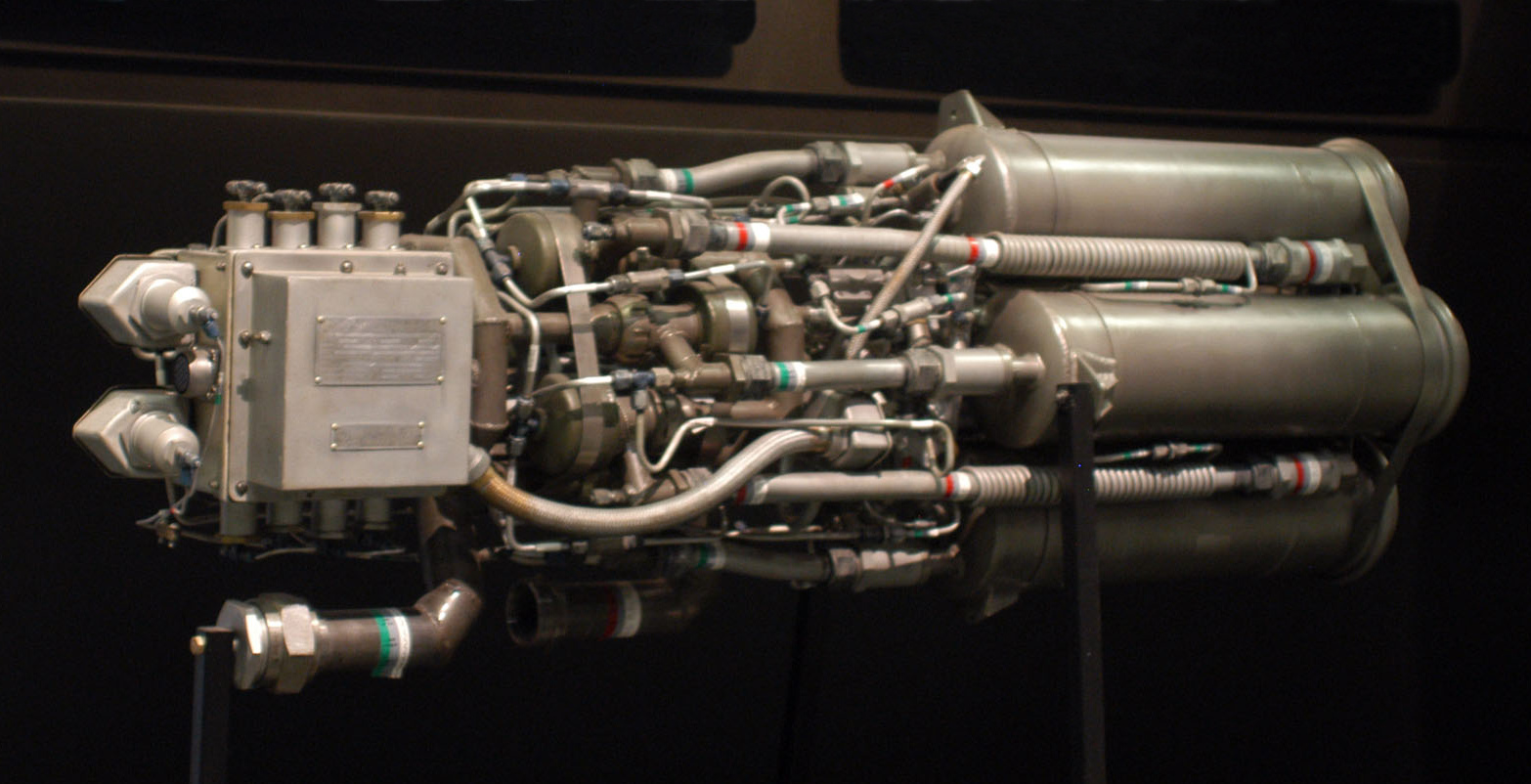 A Reaction Motors XLR-11 engine on display at the National Museum of the United States Air Force.